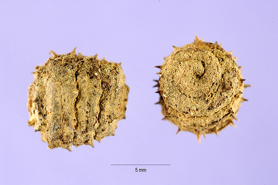 Photograph of Medicago turbinata seed pods.